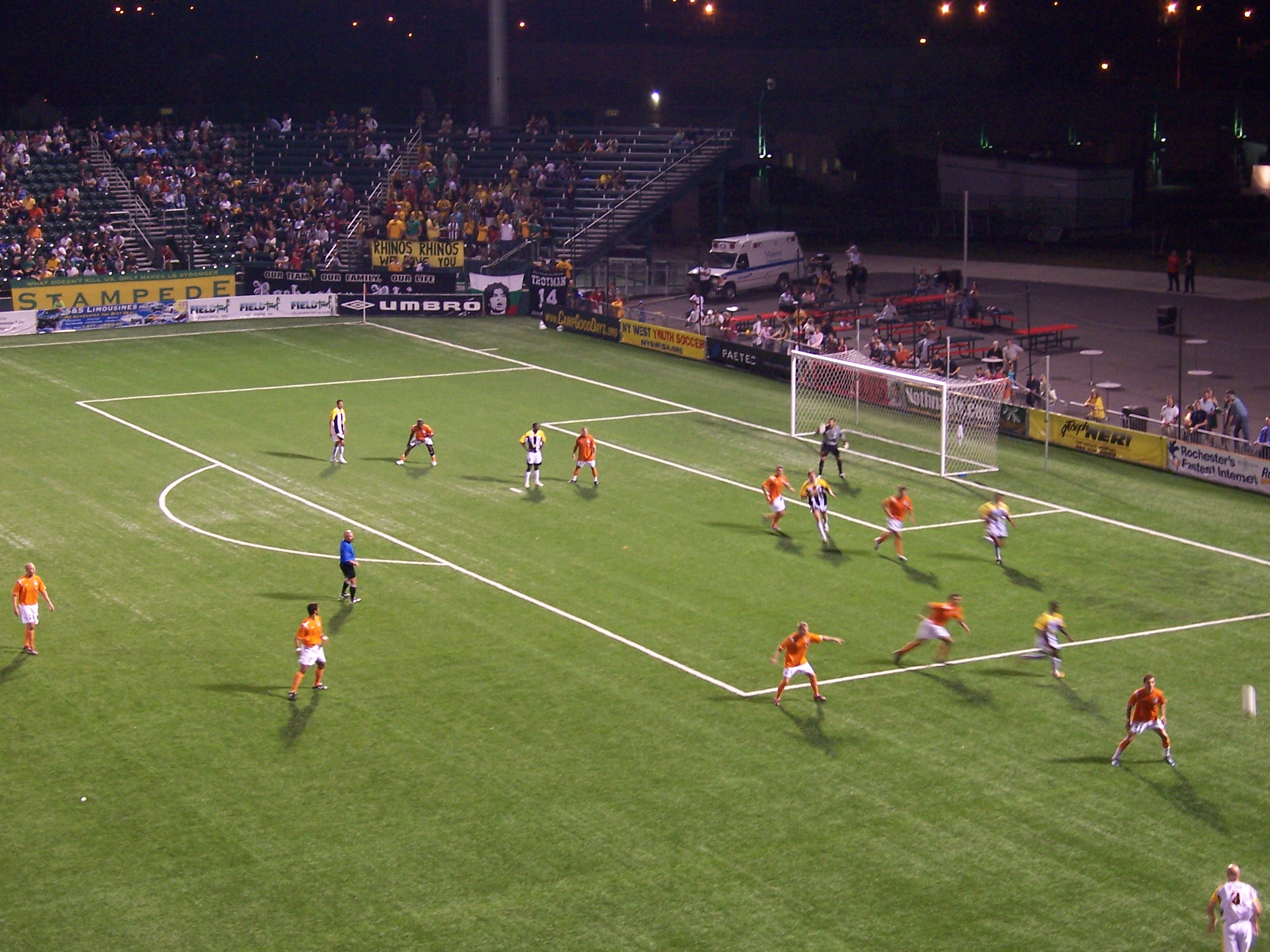 A soccer match between the Rochester Raging Rhinos (black/white/yellow) and the Carolina Railhawks (orange) at PAETEC Park in Rochester, New York. The Rochester Stampede, a group of enthusiastic fans of the Rhinos, can be seen in the far corner of the stands.